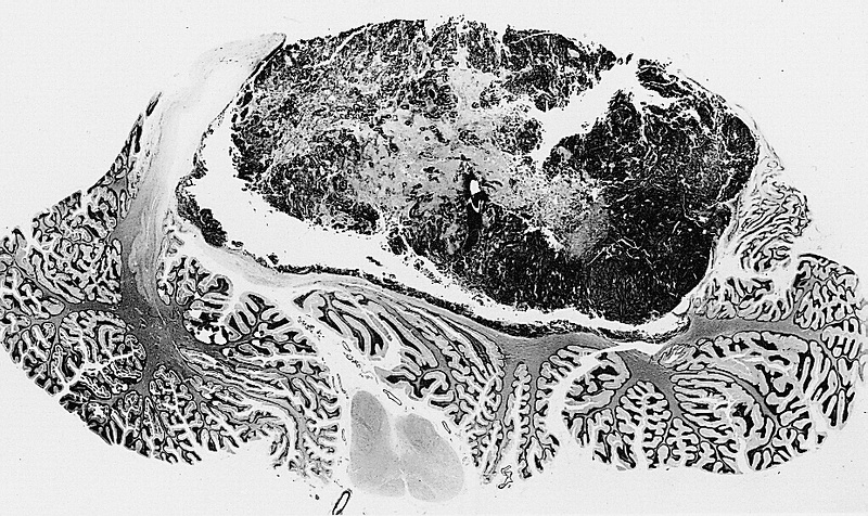 CNS: MEDULLOBLASTOMA Medulloblastomas are densely cellular and usually rather discrete.